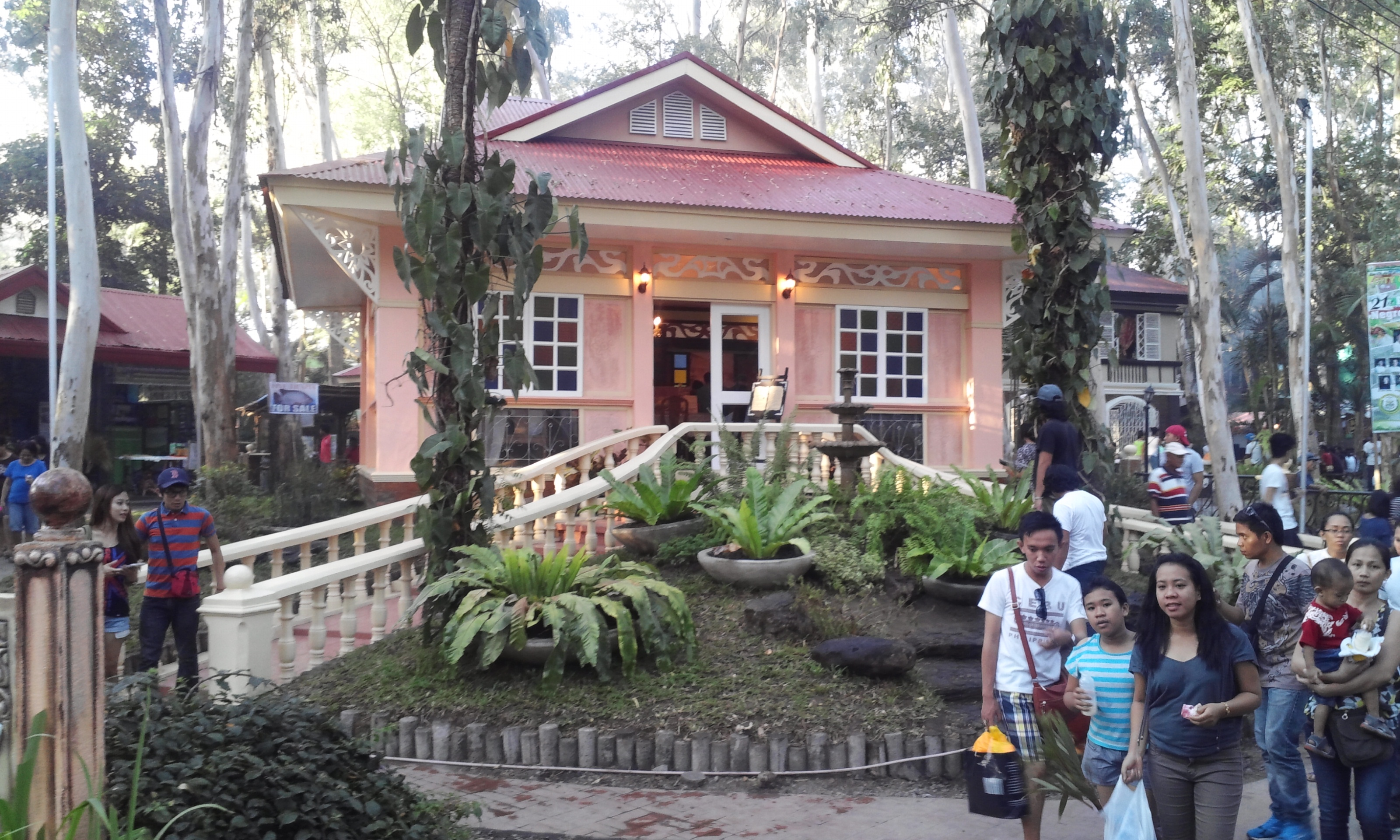 This building was old house of Silay City displayed in Pannad Festival in 2014.